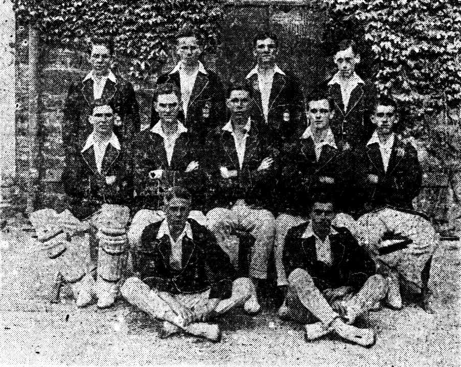 Caption from original: INTERCOLLEGIATE CRICKET VICTORS. P.A.C. Team - Front Row (left to right) - N. A. Walsh and H. E. Jaehoe. Middle Row - R. A. Kelly, C. P. Prest, G. M. Hone, R. O. Fox, and A. K. Hill. Back Row - C. D. Gray, R. L. Drennan, C. R. Wordern, and H. C. Pflaum.